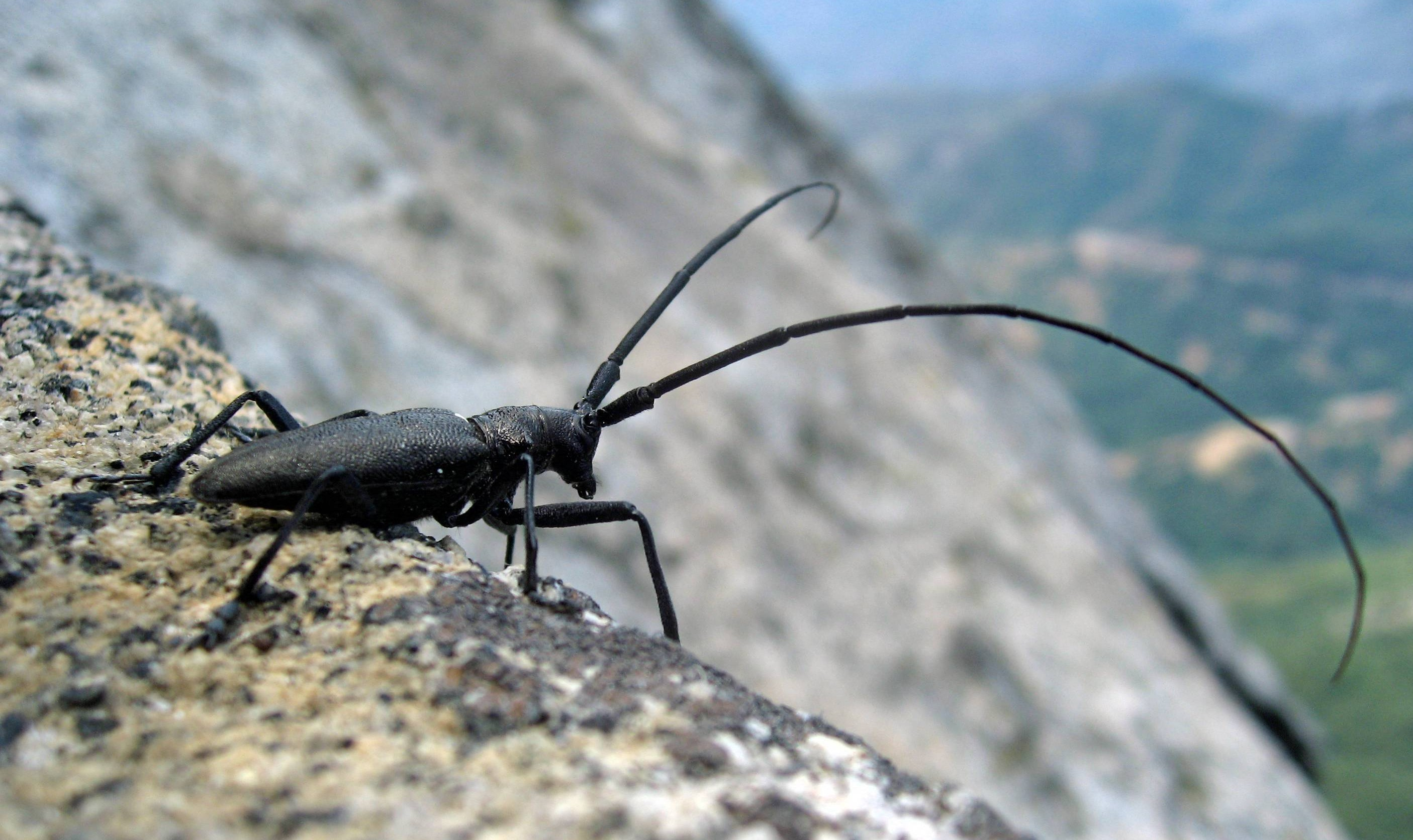 Longhorn Beetle "Whitespotted Sawyer" (Monochamus scutellatus oregonensis), Sequoia National Park, USA.